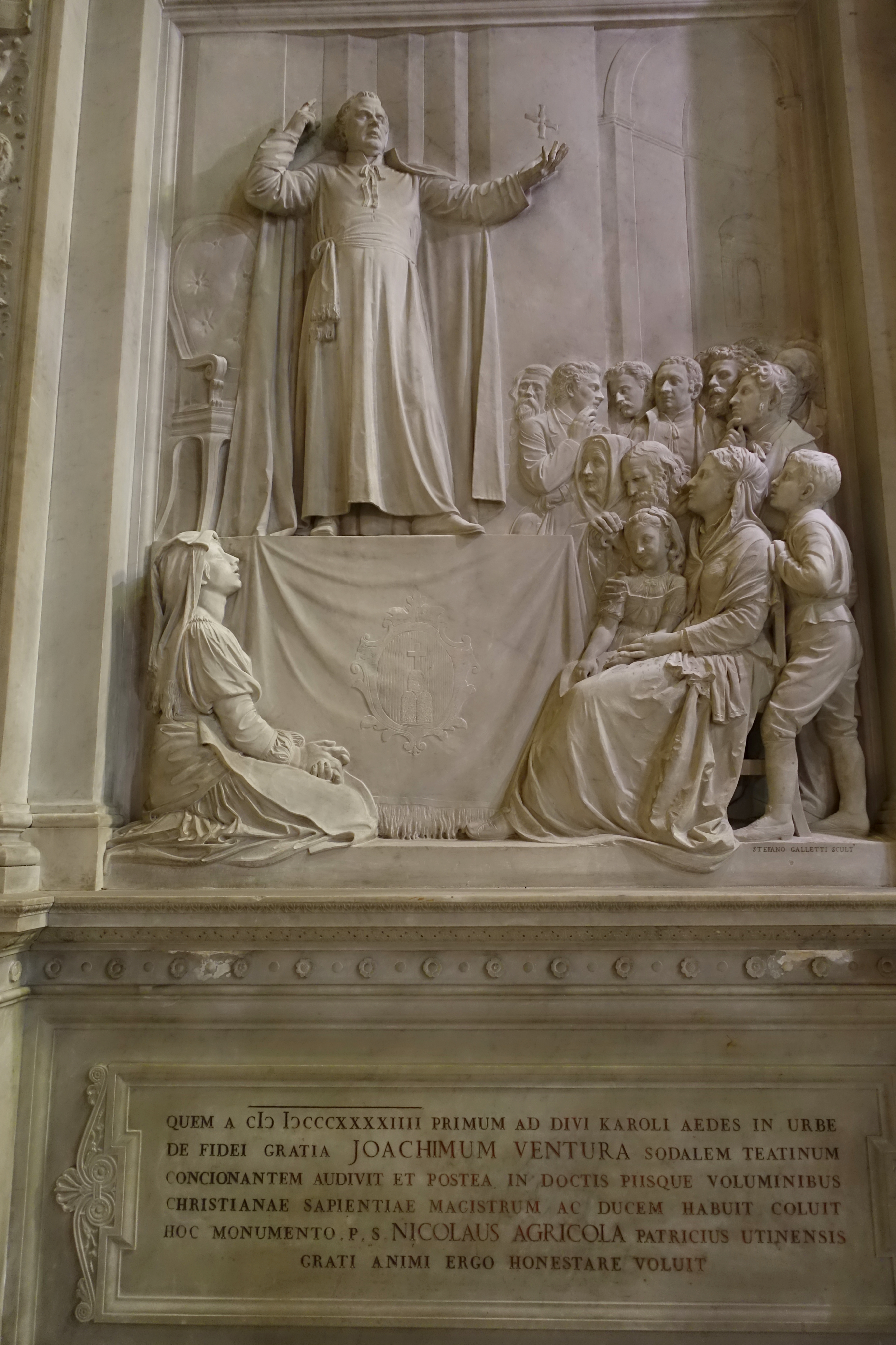 Memorial for Joachim Ventura (Gioacchino Ventura di Raulica) - Sant'Andrea della Valle - Rome, Italy.